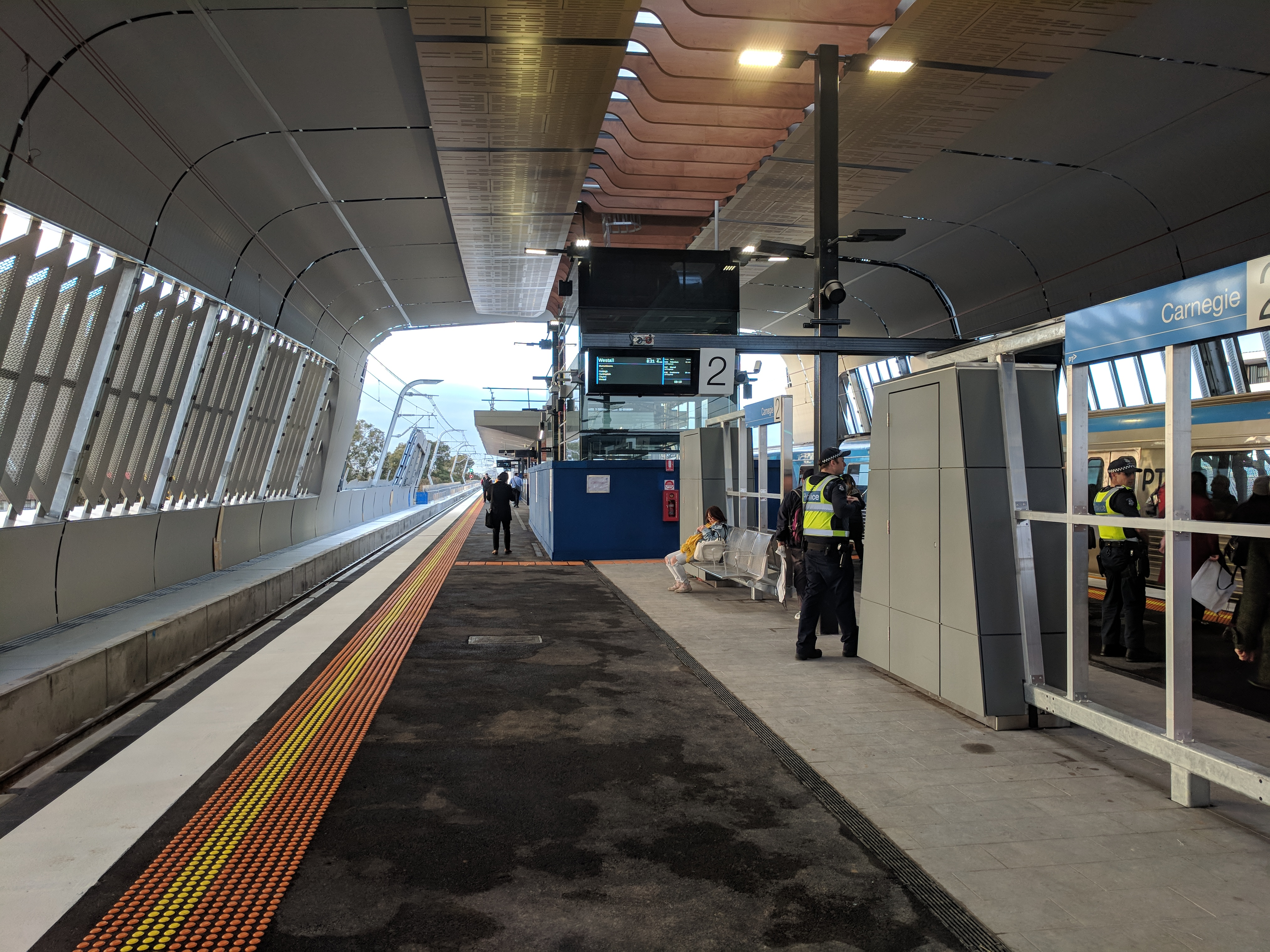 New Carnegie railway station on the 18-06-2018 (2)